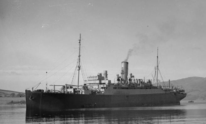 The AMC AURANIA (later HMS Artifex (F28)) lying safely at anchor at Rothesay after a German propaganda broadcast had erroneously claimed that she had been sunk. She arrived at Rothesay despite suffering some damage.